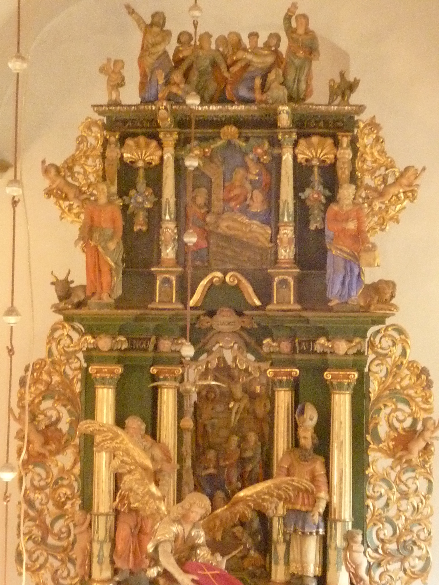 Altar at the protestant church at Sorkwity, Poland (before 1945 Sorquitten in East Prussia)